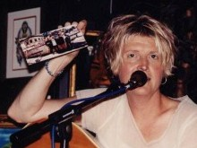 Tian Liu, taken in Cambridge, MASS, USA, 2002